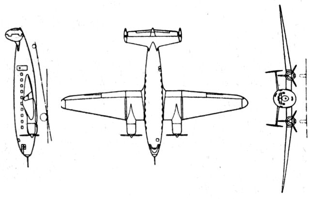 Curtiss CW-20 prototype 3-view L'Aerophile January 1940